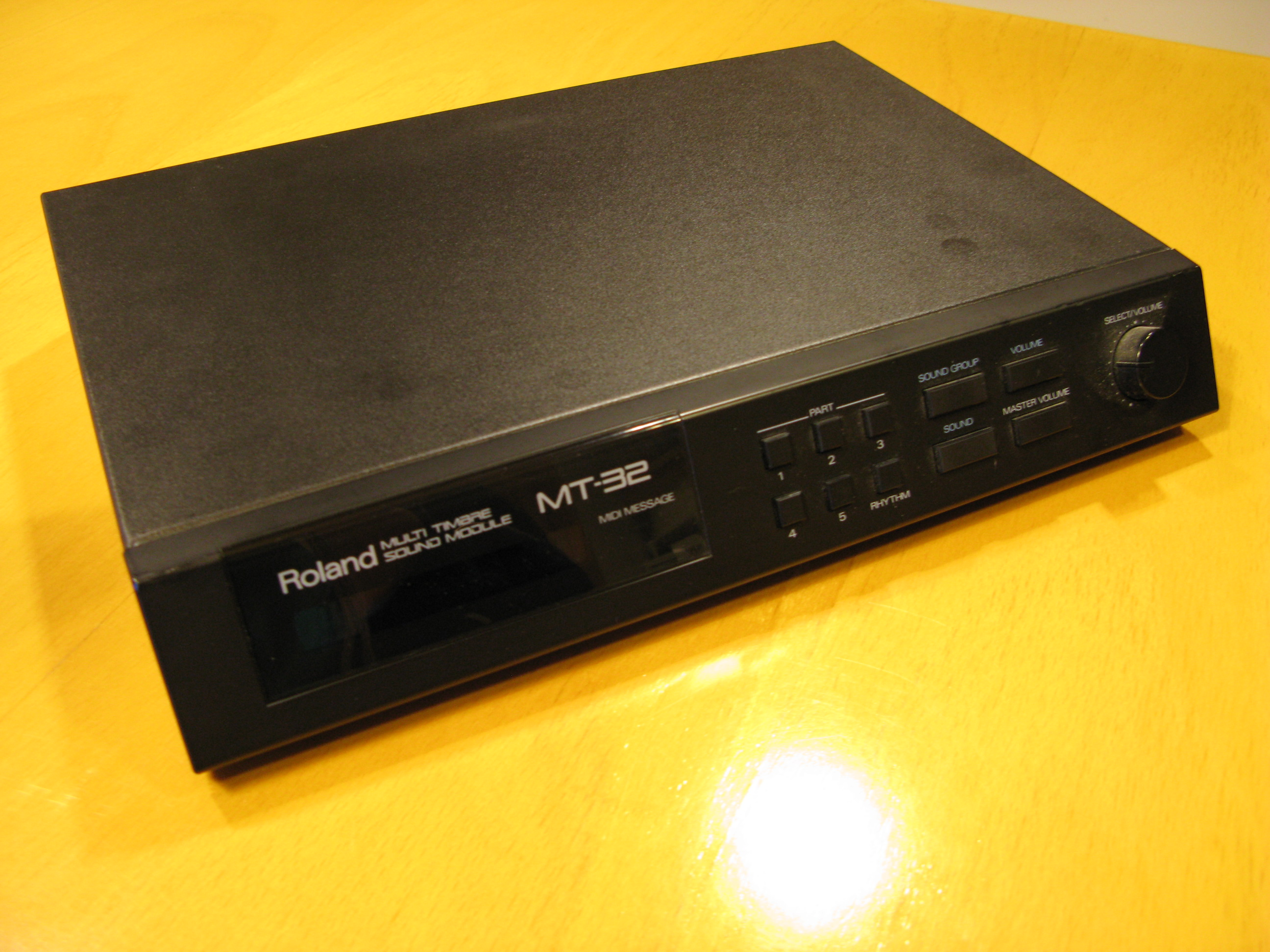 Roland MT-32